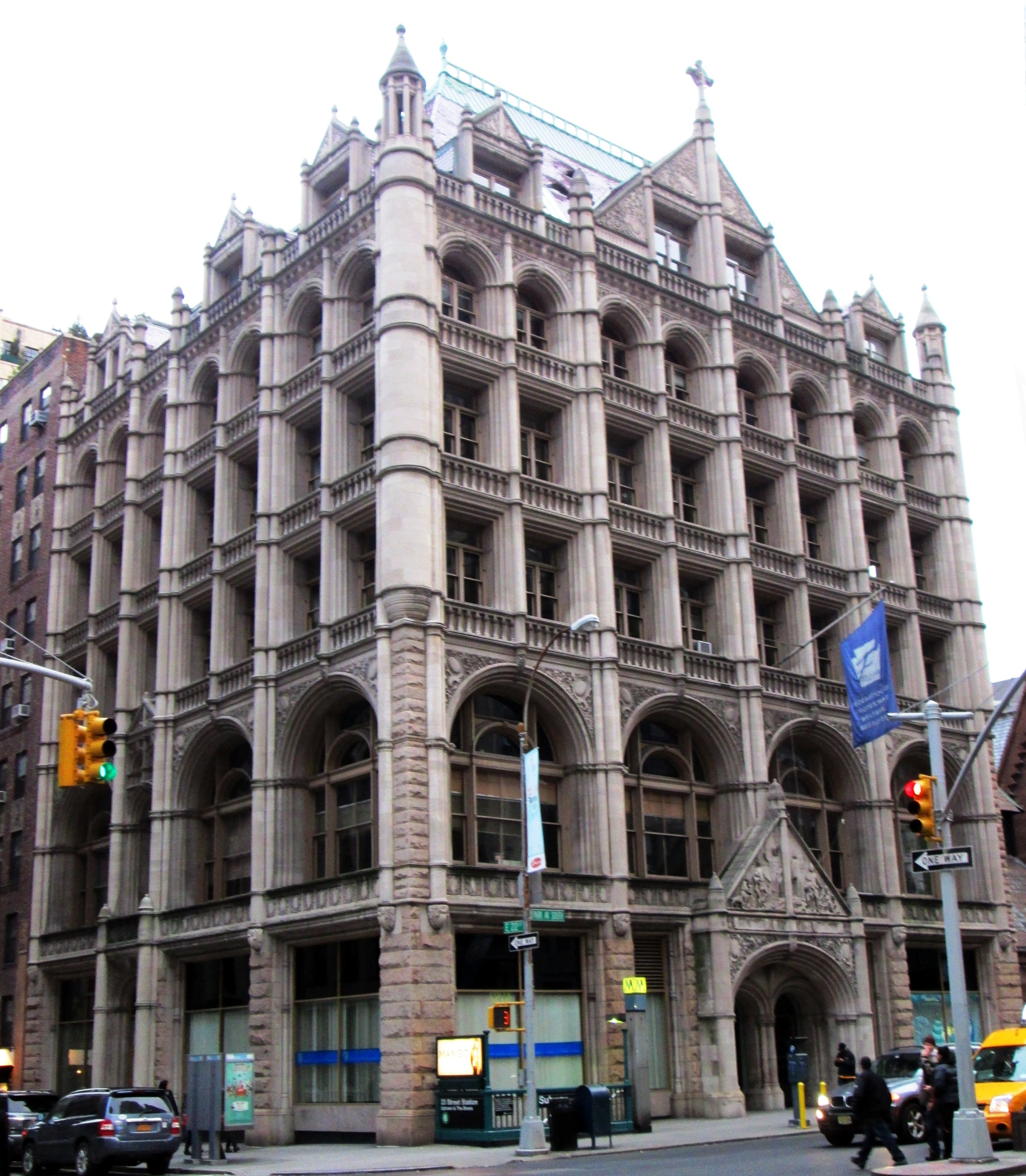 The Federation of Protestant Welfare Agencies Building, at 281 Park Avenue South, in Manhattan, New York City. The building, a NYC designated landmark, was originally called the Church Missions House, and was designed by Robert W. Gibson and Edward J.N. Stent for the Episcopal Church. It was built between 1892 and 1894, and was restored in 1990 by Kapell & Kastow. (Sources: AIA Guide to NYC (4th ed.), [1])